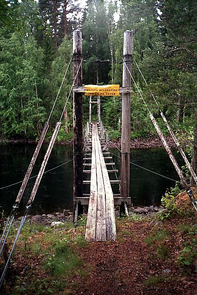 Suspension bridge crossing the river Lögdeälven near Fredrika in northern Sweden.